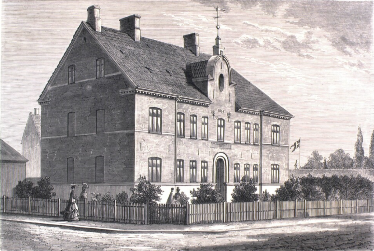 J. W. Heyman og Hustrues Stiftelse for Officeersenker at Viktoriagade 19 in Copenhagen, Denmark